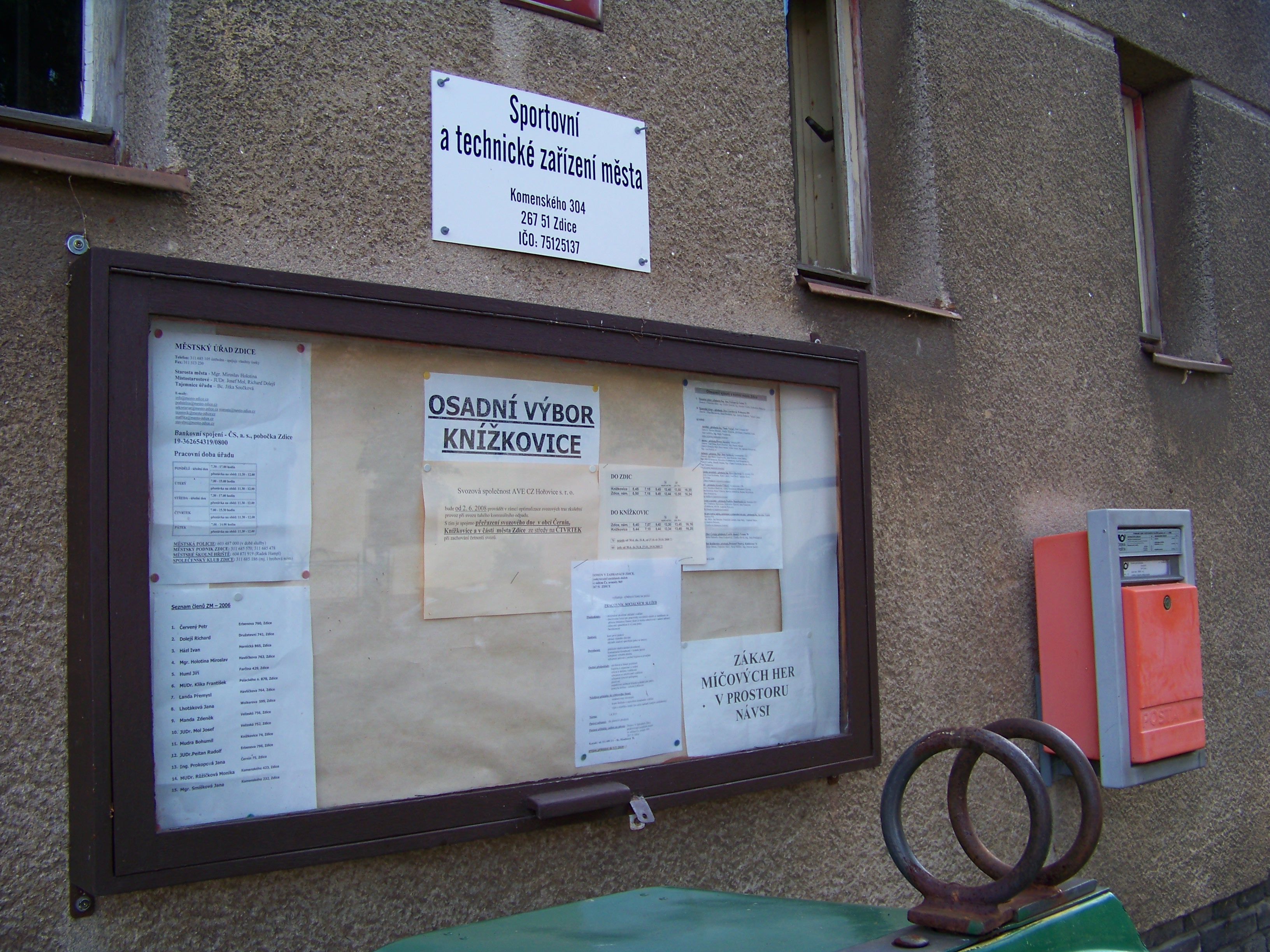 Zdice-Knížkovice, Beroun District, Central Bohemian Region, the Czech Republic. A municipal board and a post box. - Google Maps - Google Earth